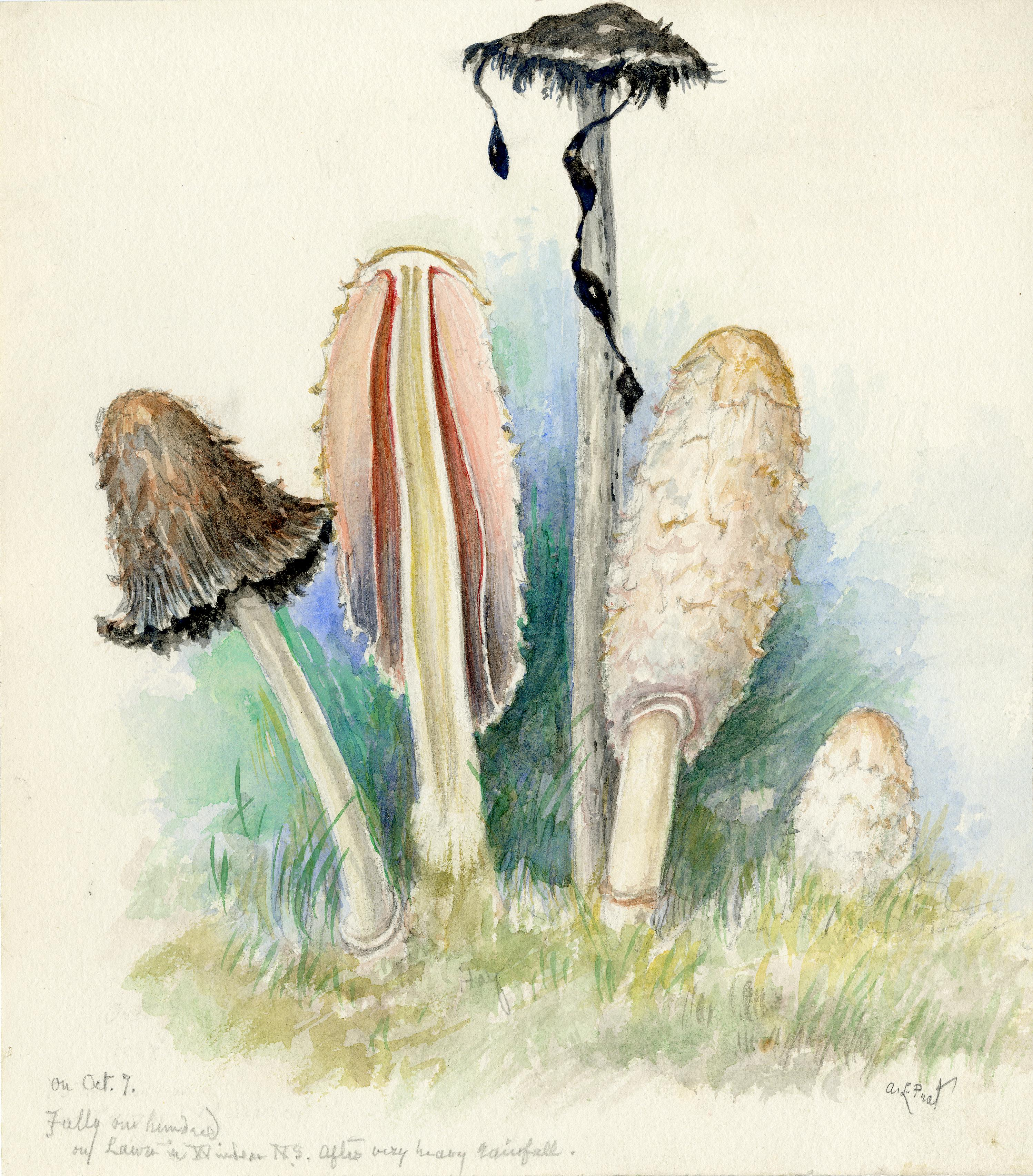 Painting of Coprinus comatus, by Annie L. Prat (1861 - 1960).